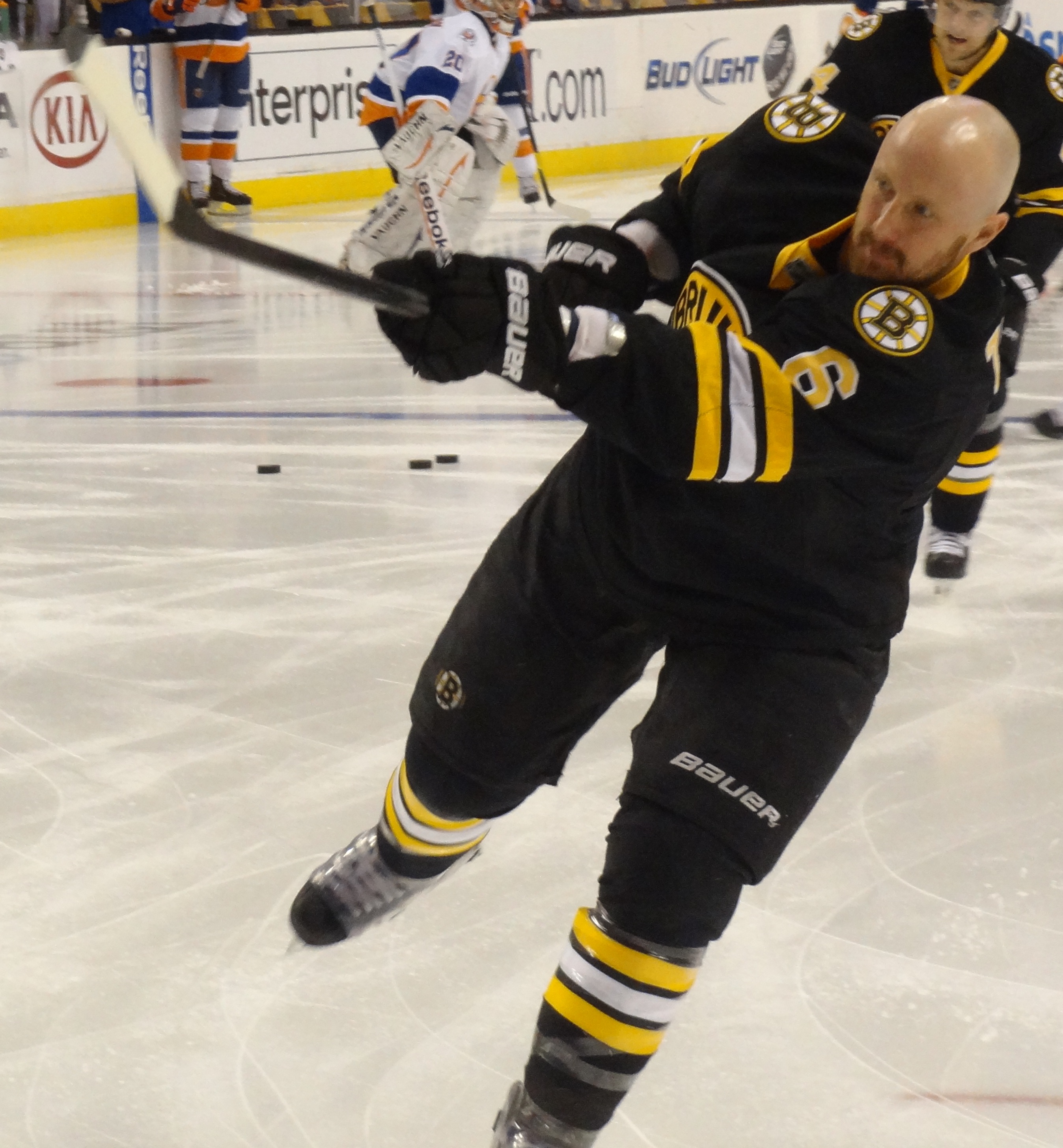 Greg Zanon taking a shot on net during pre-game warm ups at the TD Garden.